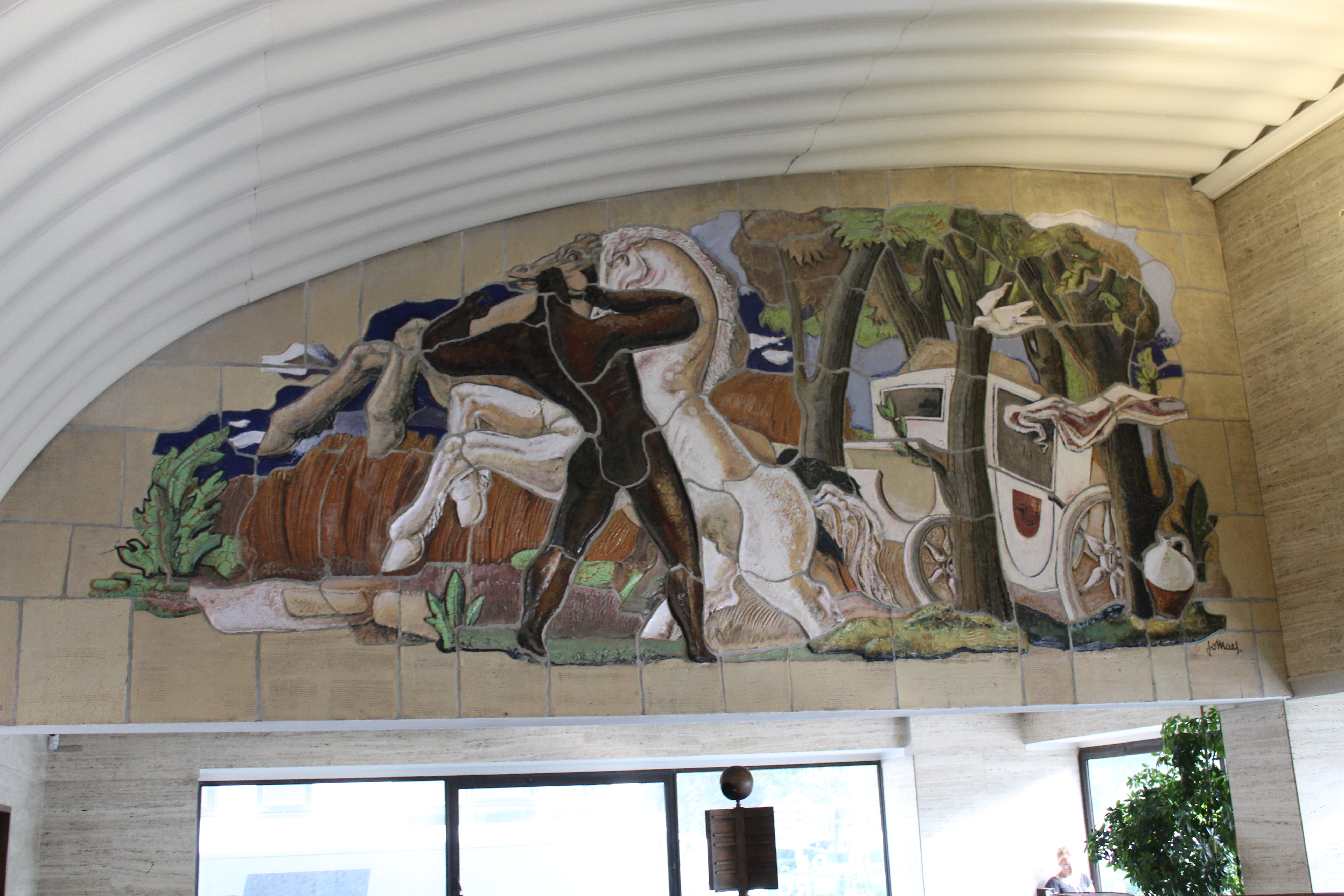 large ceramic relief by Jo MAES, loacted in the former post office of OOestende/Belgium